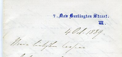 Letter, white paper with blue inscription adress: 7, New Burlington Street. Handwritten, ink: "Mein liebster Caspar..."